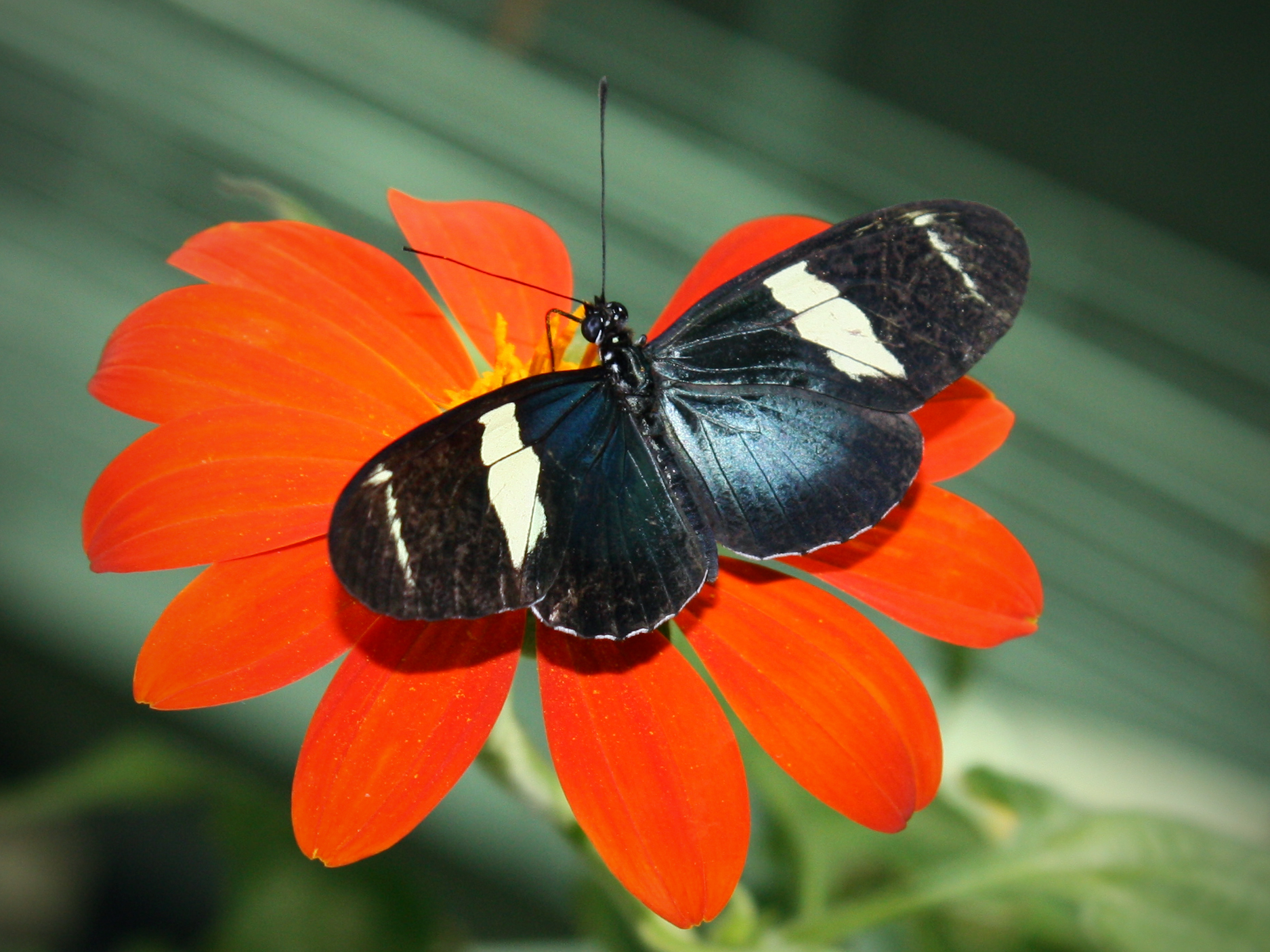 Heliconius sara